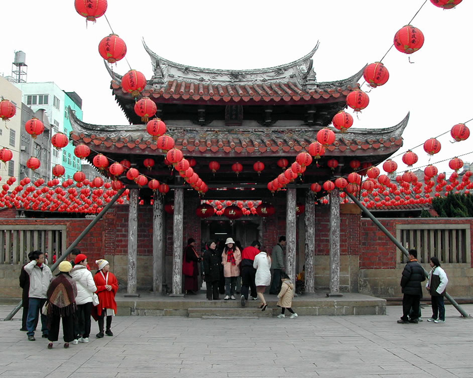 Outer gate of the Lung-Shan Temple at Lukang Township, Changhua County, Taiwan in 2004, on a cloudy day. Not to be confused with the similar-named temple in Wanhua, Taipei City.